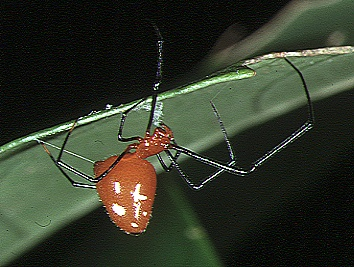 female Argyrodes flavescens from Okinawa.